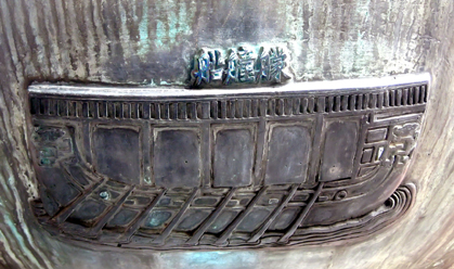 Model of a warship by Dai Viet. Shown in Keo Pagoda, Thái Bình Province, Việt Nam